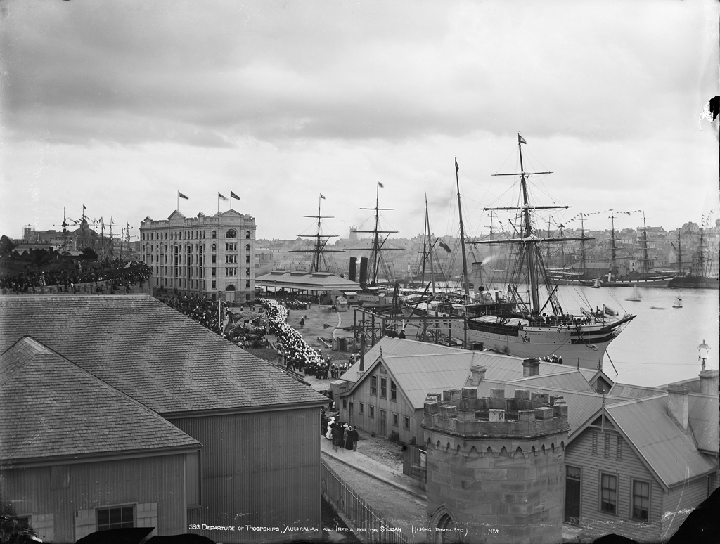 Departure of Troopships, Iberia and Australasian for the Soudan. This image from a glass plate negative depicts the New South Wales contingent of soldiers marching to the troopships ‘Australasian’ (near) and ‘Iberia’ moored in Sydney Cove prior to their departure for the Sudan on 3 March 1885. All the ships in the Cove are flag dressed for the ceremonial occasion although not all Sydneysiders agreed with the venture. About 700 volunteers joined the two troopships, keen to support the Empire. A collection of historical pictures in the Public Domain from the Powerhouse Museum. This file was posted to Flickr by The Powerhouse Museum (See the archive of their website for further information). Many thanks to the Powerhouse Museum for helping release this wonderful material. This tag does not indicate the copyright status of the attached work. A normal copyright tag is still required. See Commons:Licensing for more information.